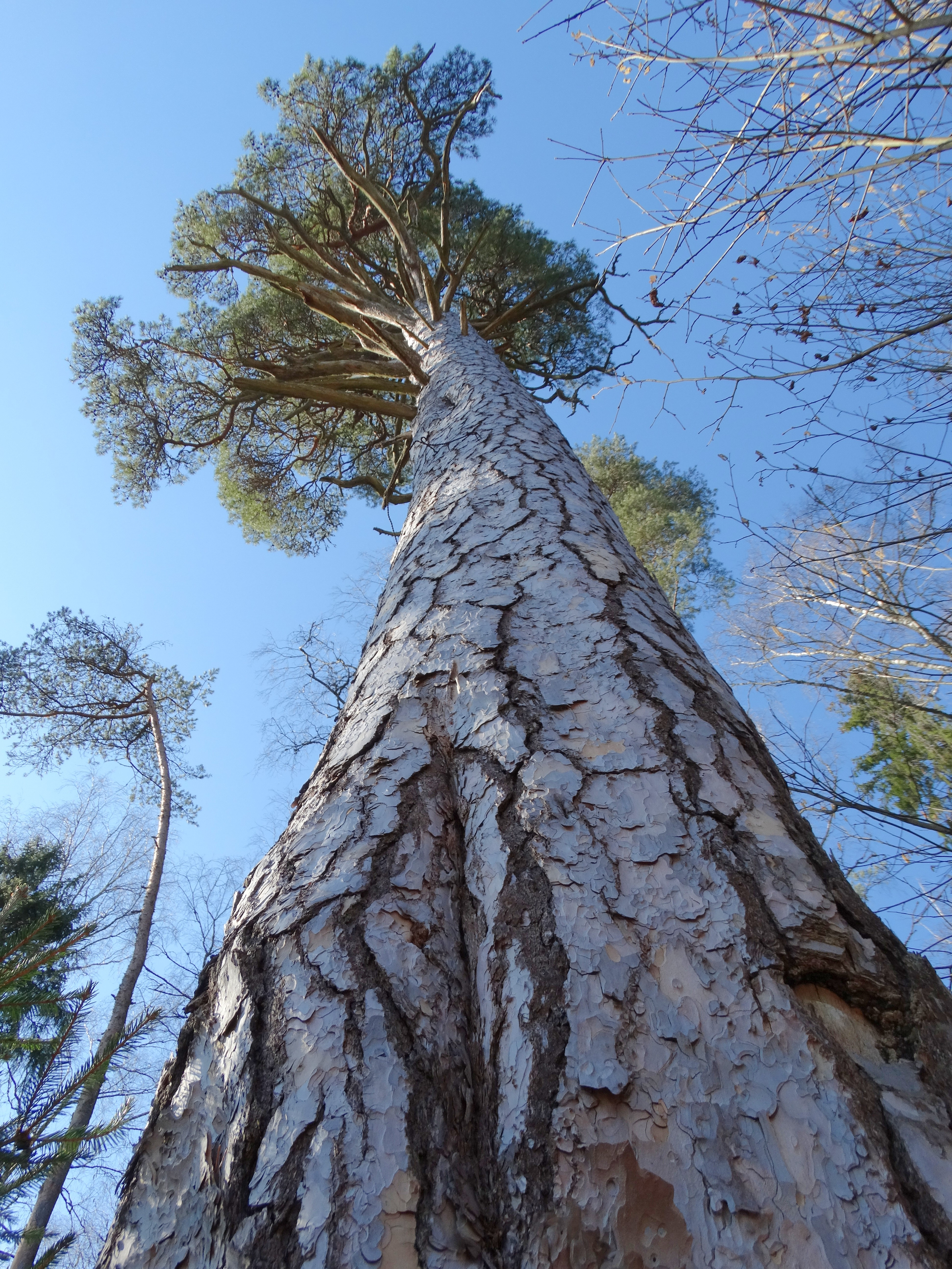 Pine tree, Naisiai (Bubiai), Šiauliai district, Lithuania